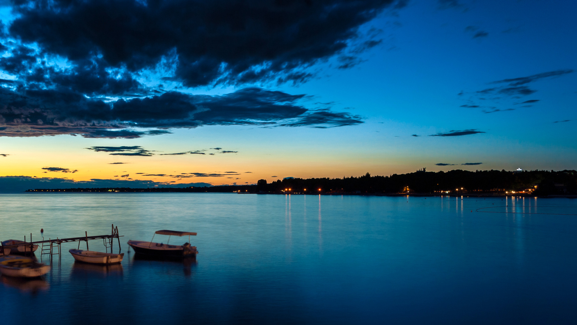 View from PorečHrvatski: Pogled iz Poreča.